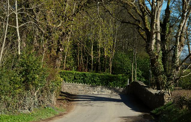 The Rademon Bridge near Crossgar The Rademon (“Rademan” on OS map) Bridge carries the Church Road across the Ballynahinch River. The river (reputed to be a good spot for licensed eel fishing) is hidden by the trees in the grounds of Rademon House.